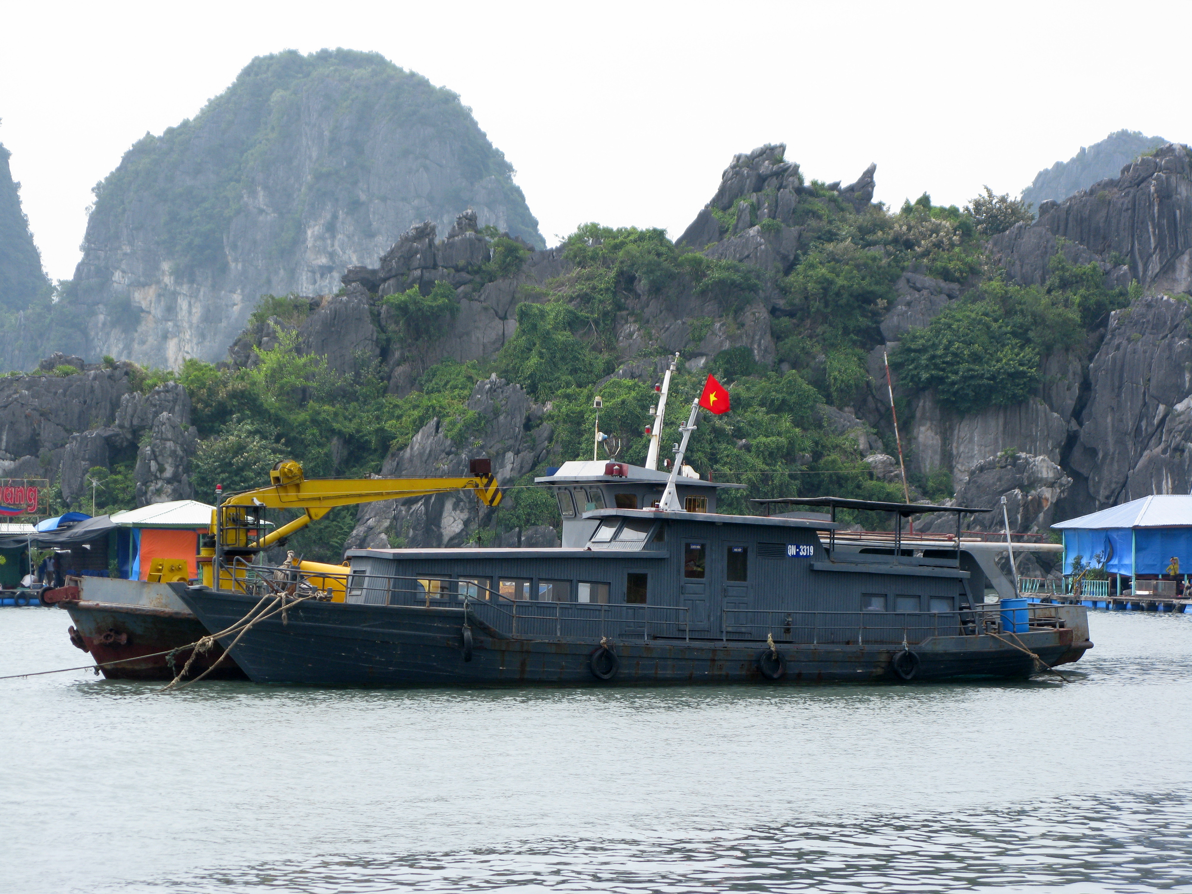 Patrol ship of Vietnam Forest Ranger in Ha Long Bay.